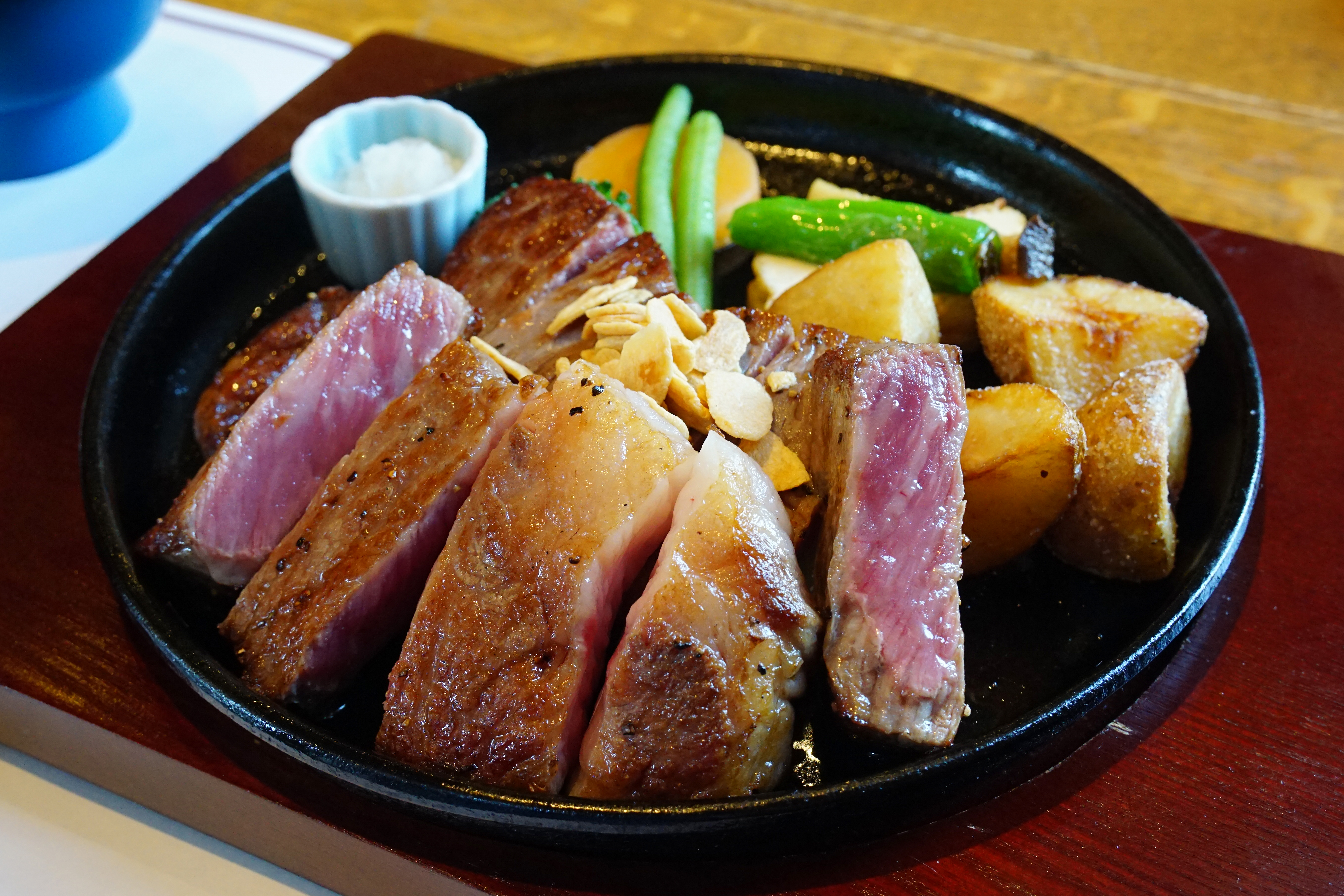 Awaji_beef steak at Sumoto, Hyogo prefecture, Japan.